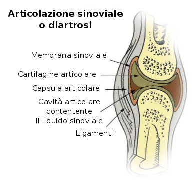 Italian version of File:Illu synovial joint.jpg.